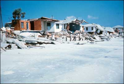 this image shows beach erosion and damage after Hurricane Eloise in 1975.